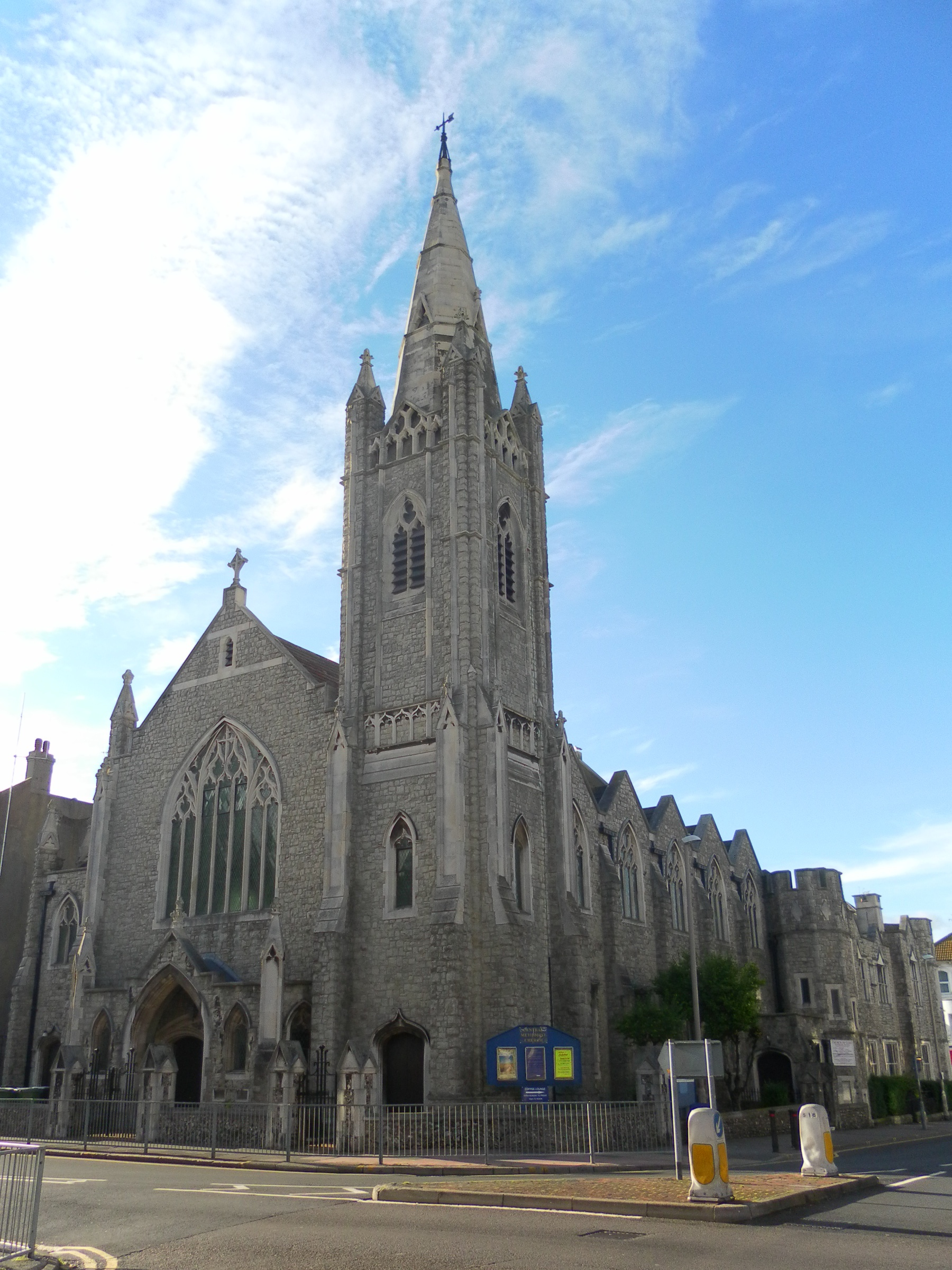 Central Methodist Church, Pevensey Road, Eastbourne, East Sussex, England. The town's main place of Methodist worship. Listed at Grade II by English Heritage (NHLE Code 1268358)